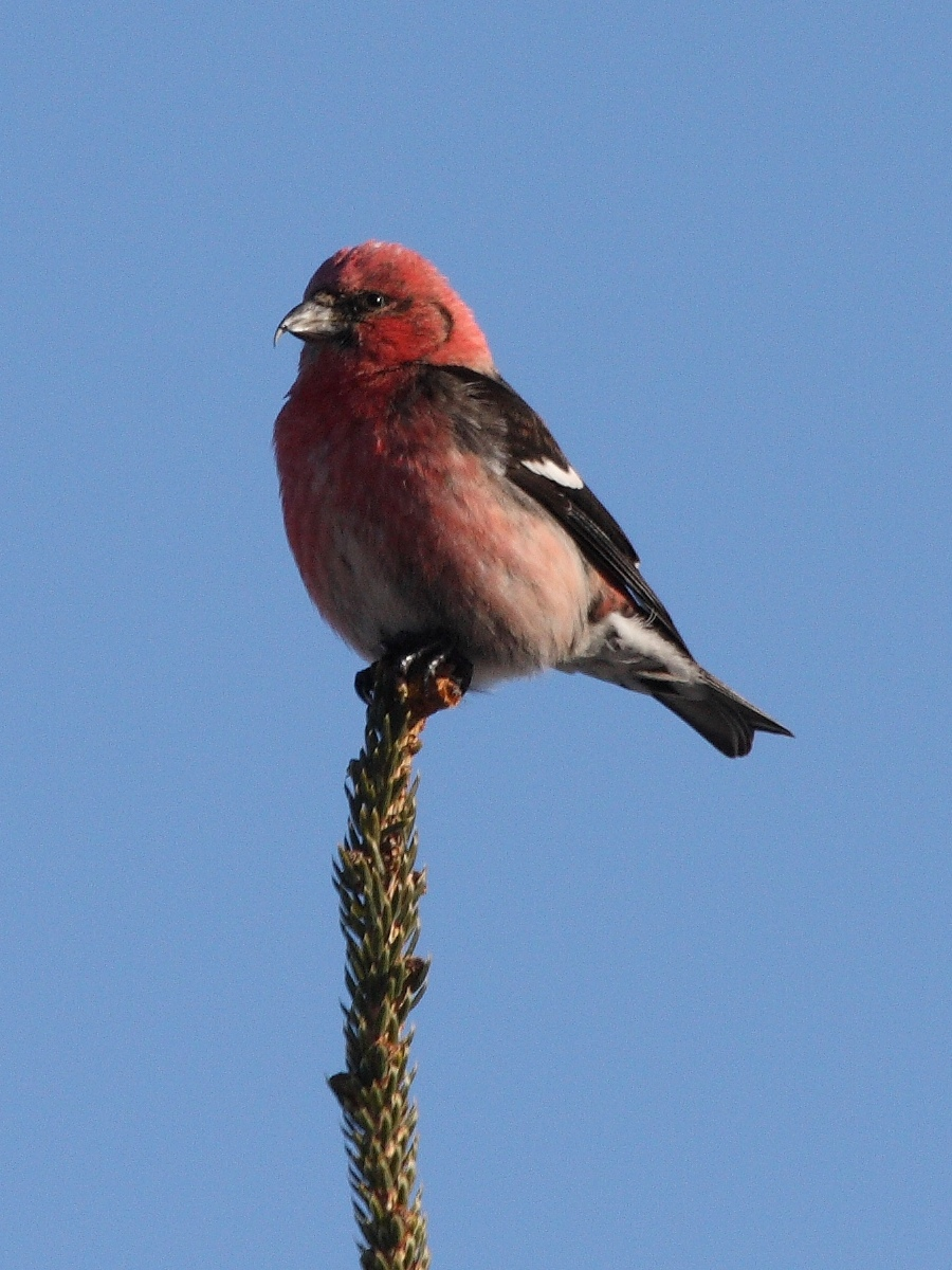 White-winged Crossbill (Loxia leucoptera)